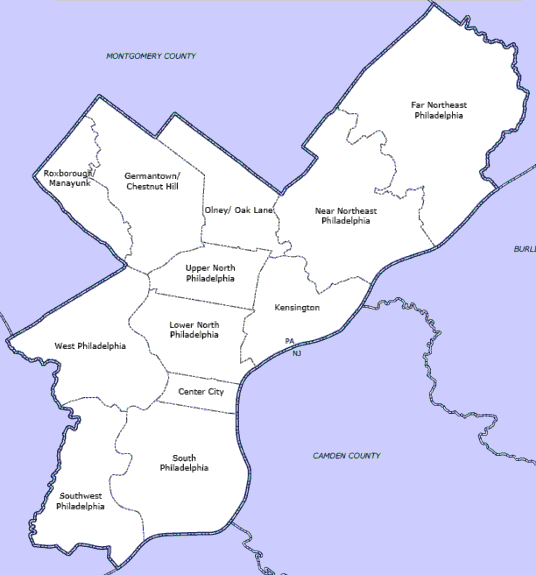 Map of Philadelphia County highlighting planning districts